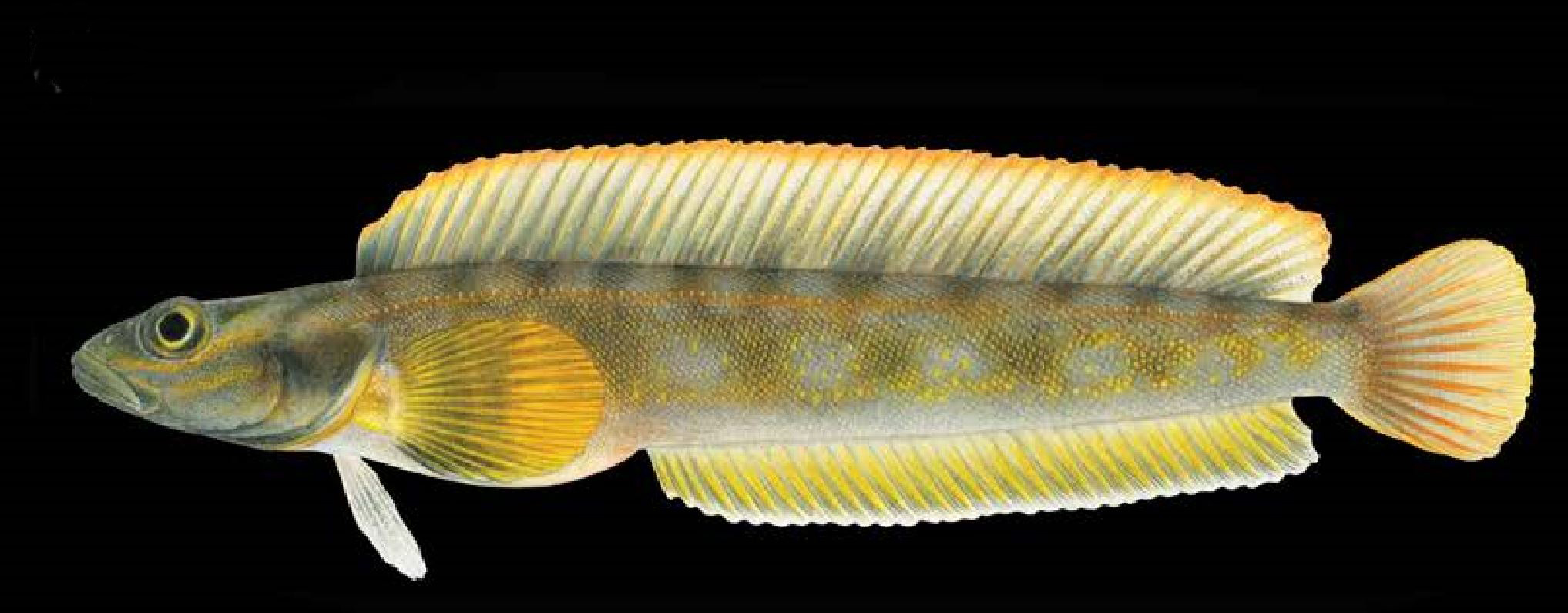 Northern ronquil, Ronquilus jordani, image by Joseph R. Tomelleri